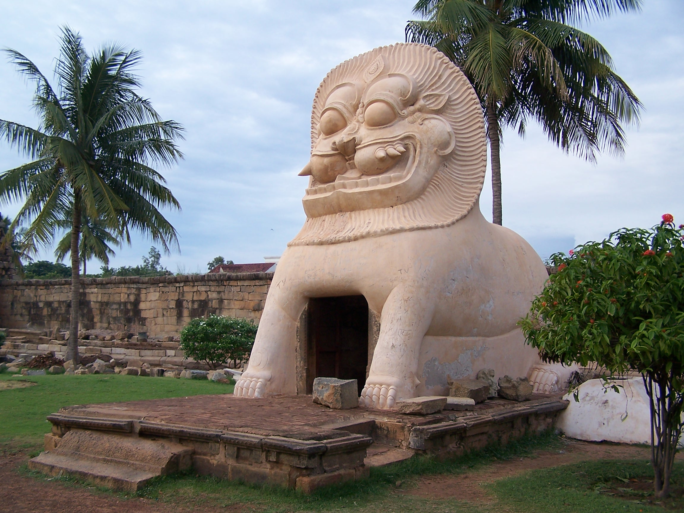 It is the photo of the well called lion-well (simhakeni) with a lion figure guarding its steps in Gangai Konda Cholapuram. Photo Taken By : Kasi Arunachalam